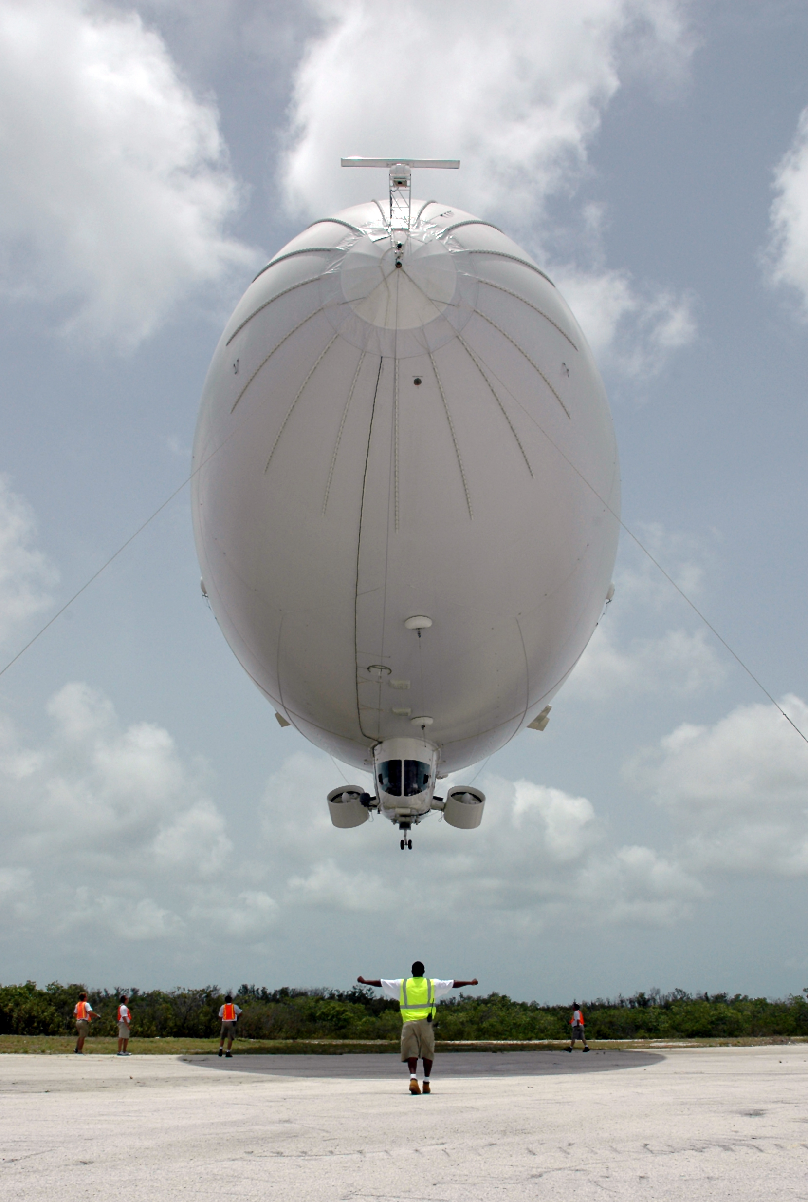 KEY WEST, Fla. (June 27, 2008) Handlers from Airship Management Services steady the Skyship 600 blimp as it prepares to touch down at Naval Air Station Key West. The lighter-than-air vehicle is in Key West for six weeks to conduct a series of maritime surveillance evaluations. The joint airship experiment between the Navy and Coast Guard emphasizes the cooperative strategy for 21st century seapower among the sea services. U.S. Navy photo by Mass Communications Specialist 2nd Class Timothy Cox (Released)